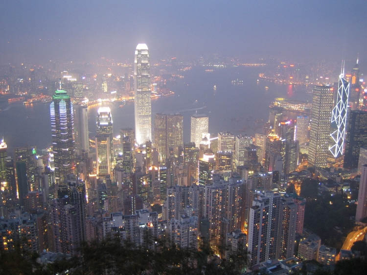 Night view from Victoria Peak, Hong Kong.